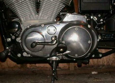 This is a picture of the 5-gear forward, constant mesh, foot shift transmission on my 2001 HD 883 Sporster Hugger (piglet). I took this photo on March 2, 2007. --Evb-wiki 01:26, 3 March 2007 (UTC) Correction to this photo: This is NOT the transmission. This is actually the primary chain housing. The transmission is located on the right side of the bike. The shifter shaft spans the width of the long block to shift the gears.